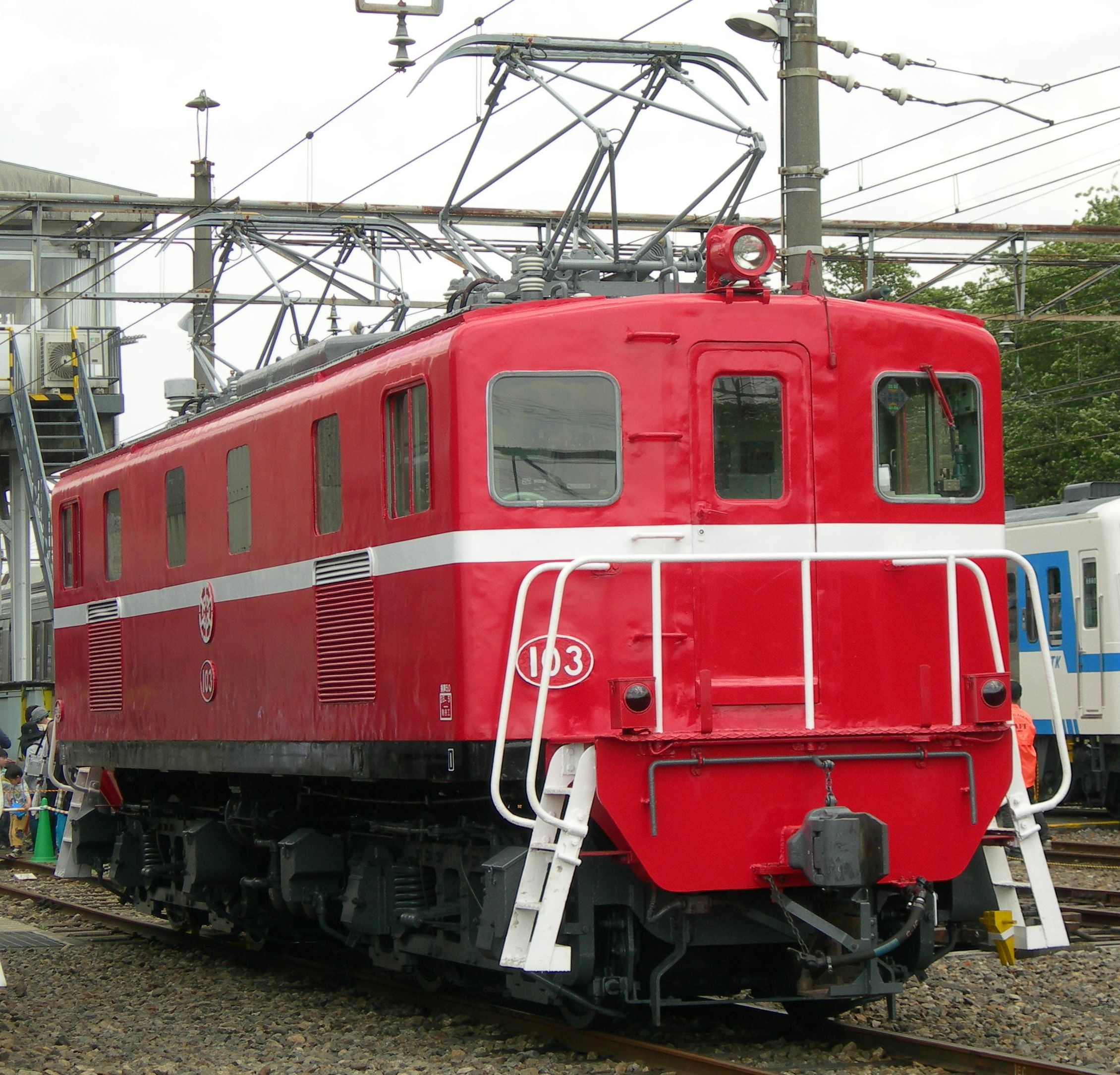 Chichibu Railway Class DeKi 100 electric locomotive DeKi 103 in red livery at Hirosegawa Depot open day